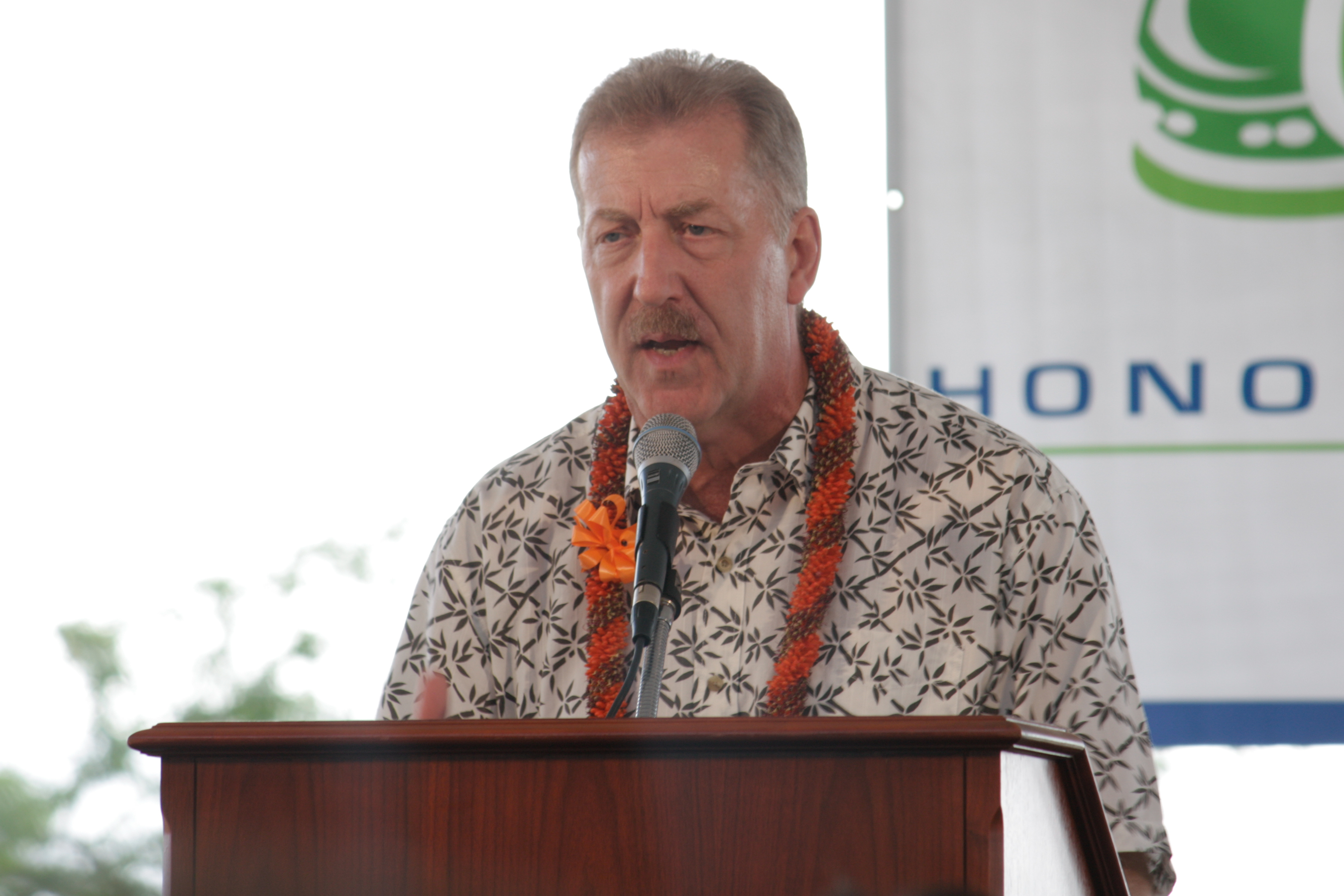 Honolulu Mayor Peter Carlisle speaking at the symbolic groundbreaking ceremony for the Honolulu High-Capacity Transit Corridor Project.